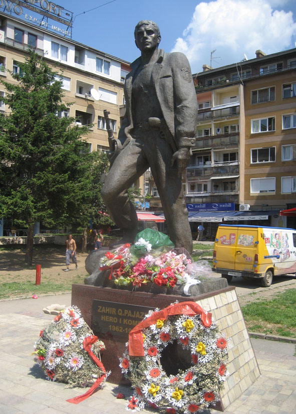 Zahir Pajaziti monument in Pristina